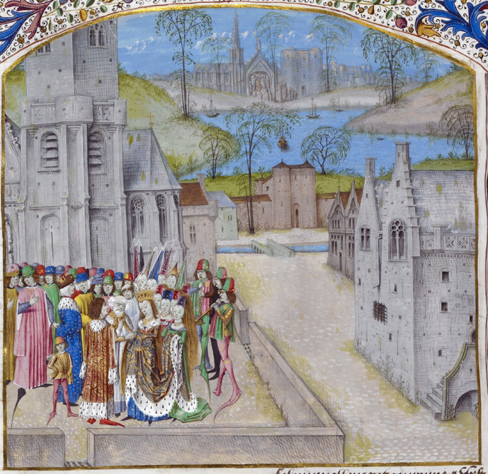 Detail of a miniature of the marriage between Edward II and Isabella, daughter of Philippe IV of France: Jean de Wavrin, Recueil des chroniques d'Engleterre, vol. 1, Netherlands (Bruges).